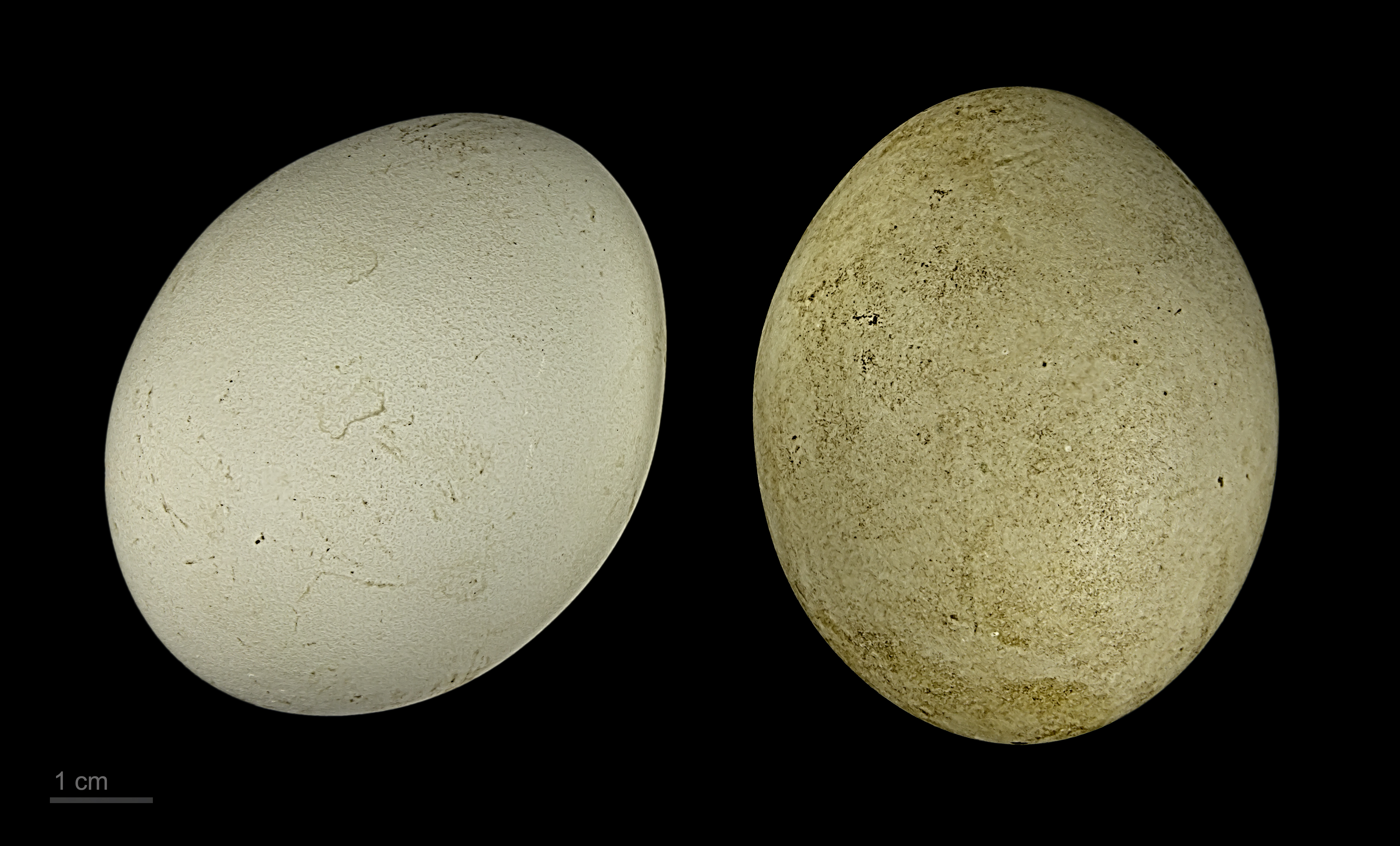 Eggs of ruddy duck Two specimens of the same spawn ; collection of Jacques Perrin de Brichambaut.